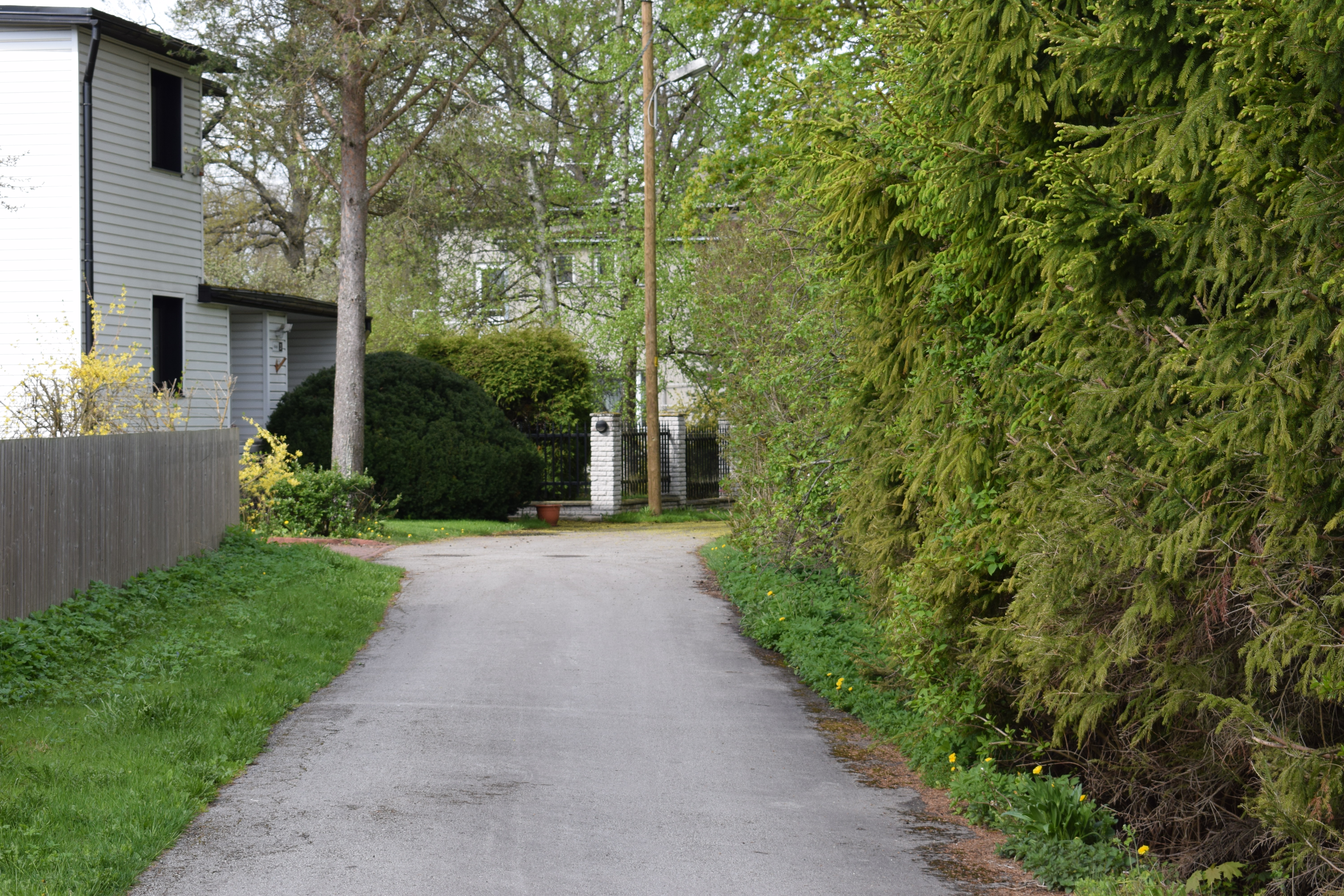 Abaja tstreet